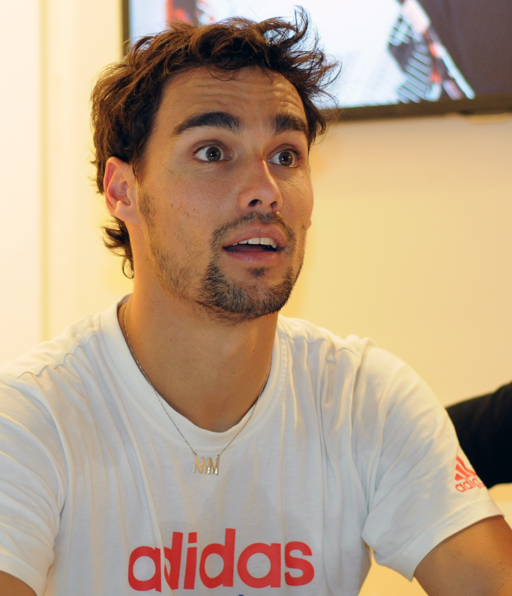 Fabio Fognini at the 2014 Kremlin Cup